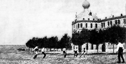 Sport Lisboa first playing field